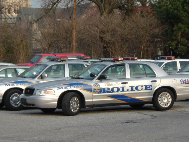 Louisville Metro Police car at 4th Division office Old Louisville